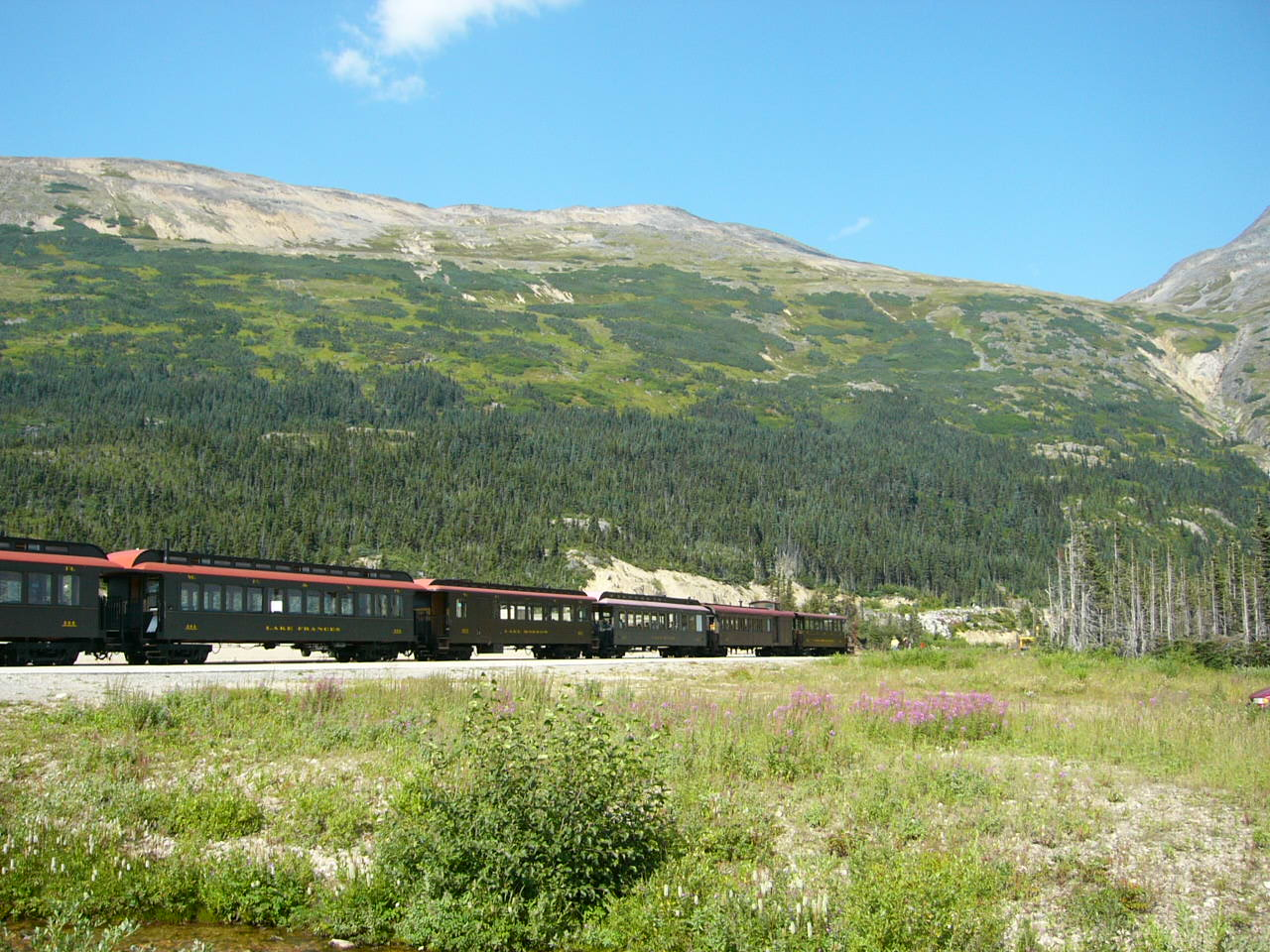 Yufei Yuan on August 12th, 2005.